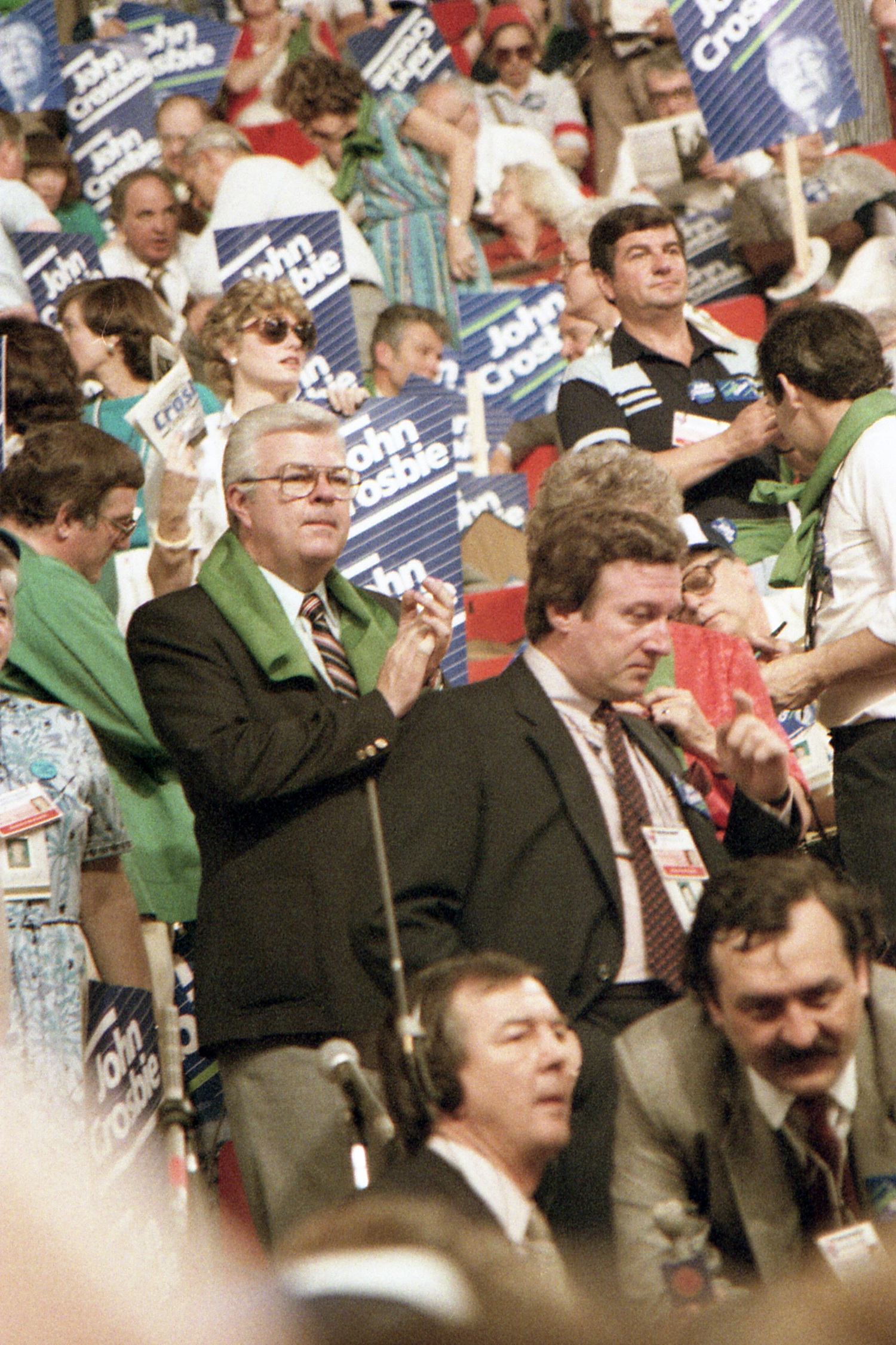 John Crosbie on floor of the Progressive Conservative leadership convention, 11 June 1983. Photograph by Alasdair Roberts